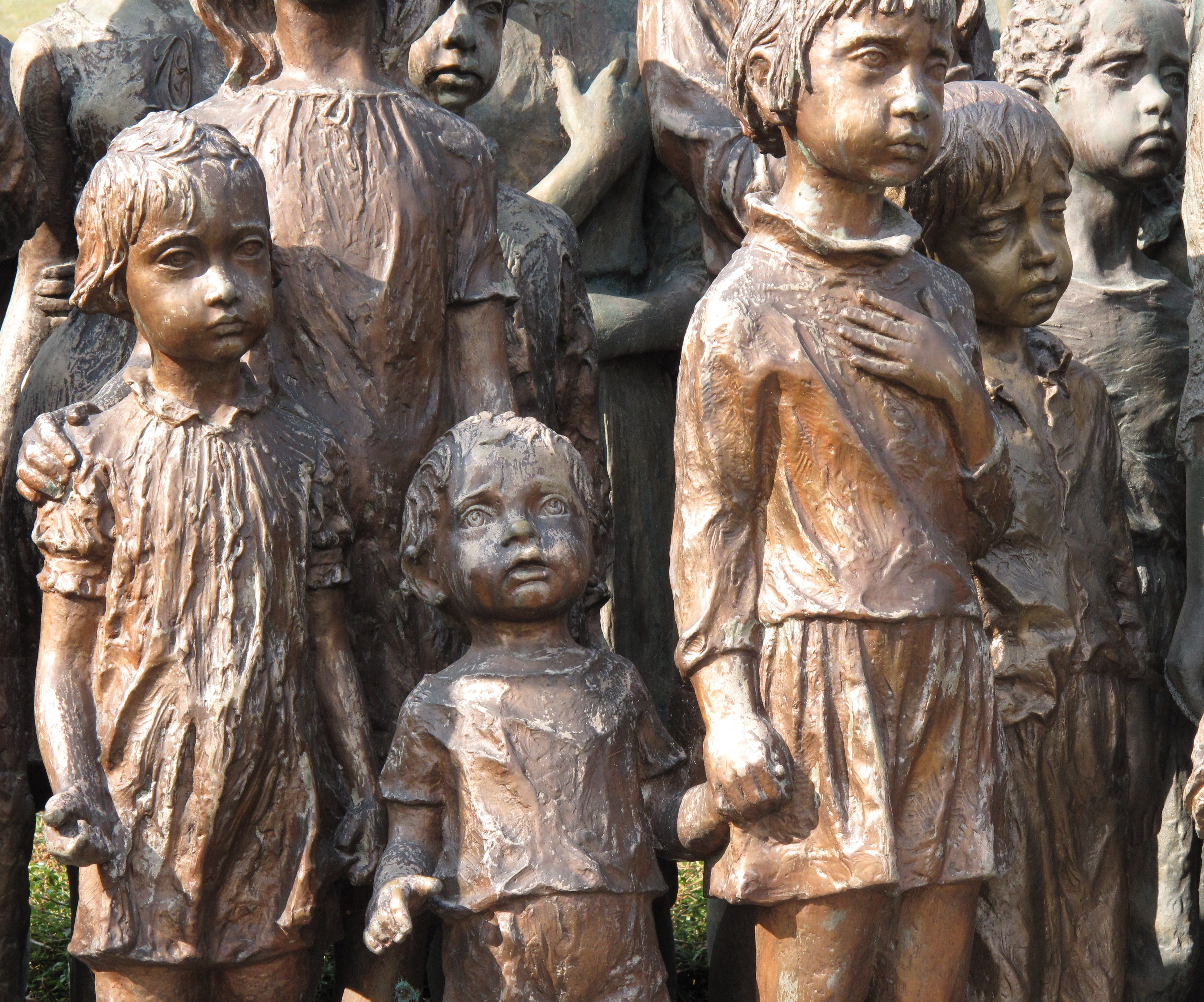 Monument to the Children's Victims of War by Marie Uchytilová - detail, Lidice Memorial, Czech Republic. 82 statues presented represent 82 children of Lidice village, who were probably killed in the Extermination camp of Chelmno, Poland during the World War II. Statues where carved from gypsum for about 20 years (1969-1989). After the death of Maria Uchytilová it took other years to to molten it to bronze and it was installed then in Lidice Memomorial in the years 1995-2000.